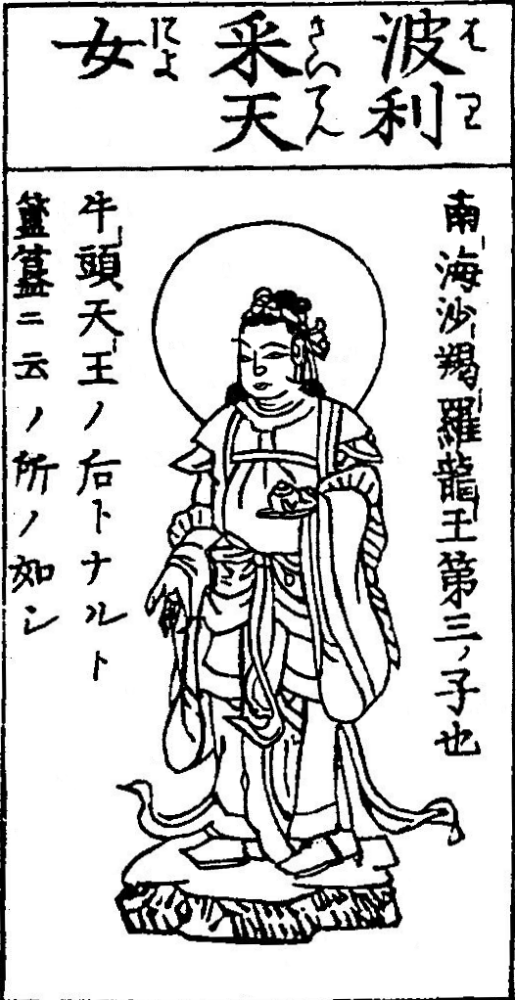 Harisainyo as one of buddhist deities